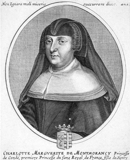 Charlotte Marguerite de Montmorency, princesse de Condé 1594 - 1650. Engraving by Pierre Daret (1610 - 1675)